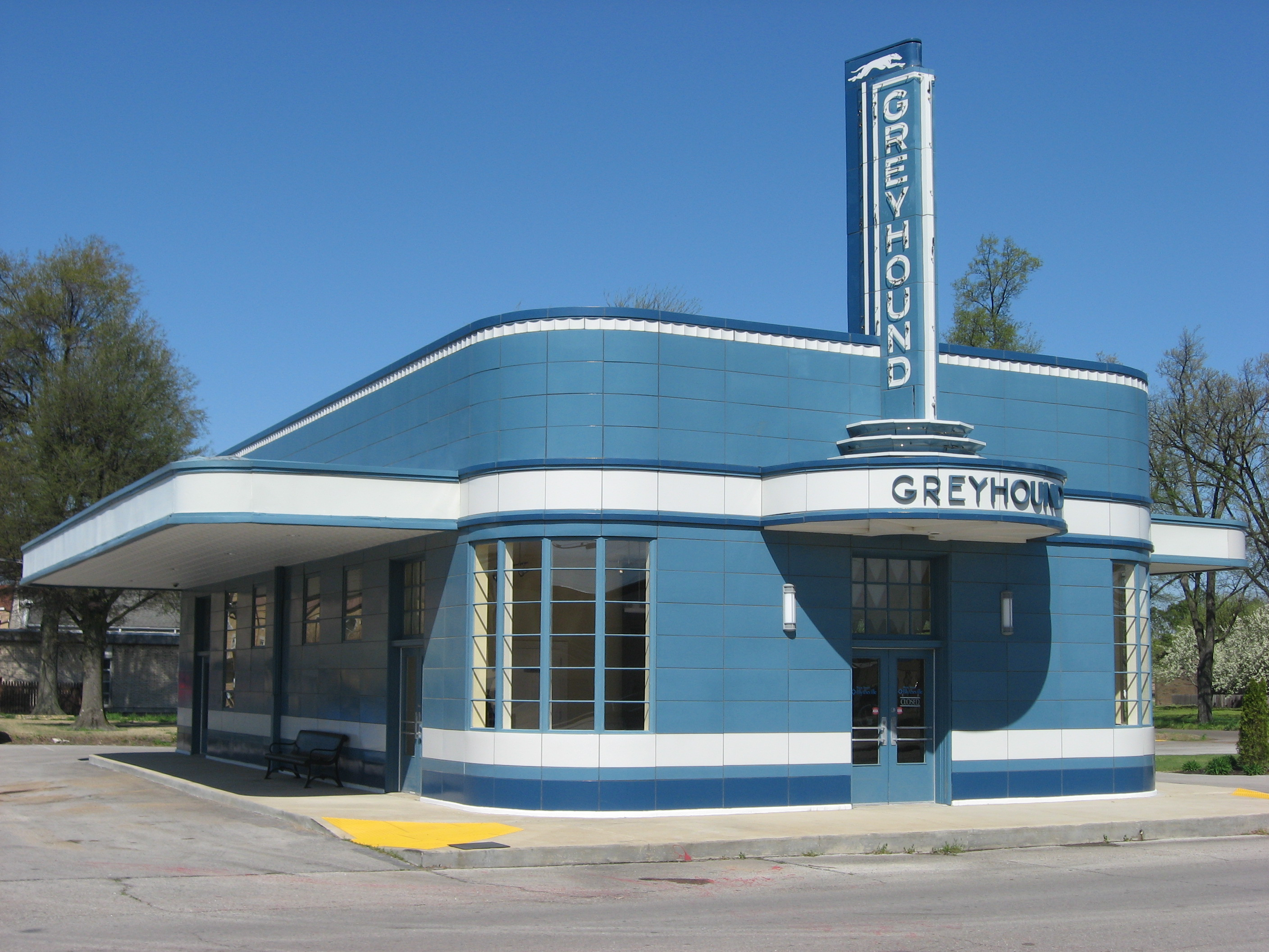 Front and southern side of the former Blytheville Greyhound Bus Station, located at 109 N. Fifth Street in Blytheville, Arkansas, United States. Built in 1937, it is listed on the National Register of Historic Places.